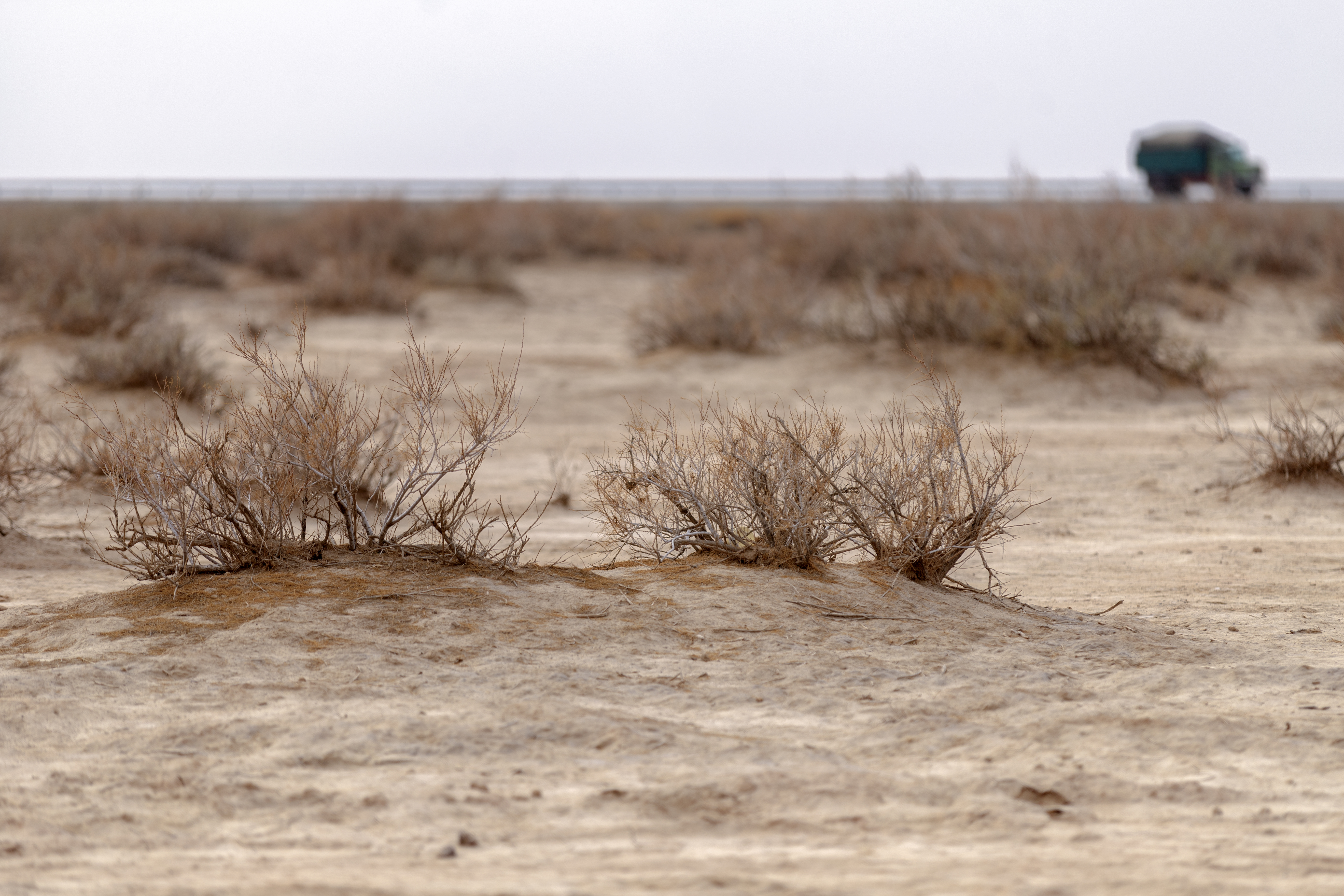 Qom Province, is one of the 31 provinces of Iran with 11,237 km², covering 0.89% of the total area in Iran.